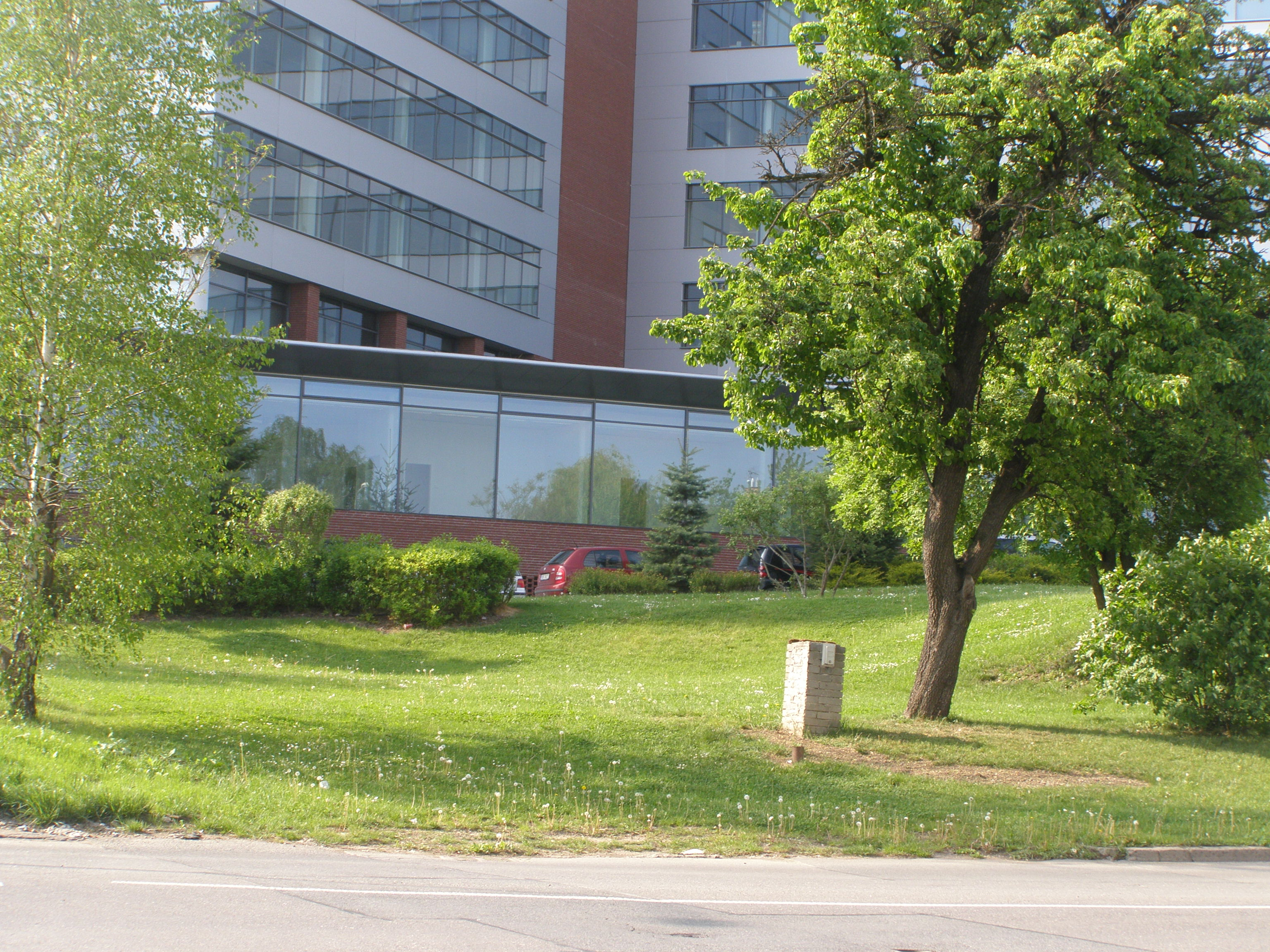 Site of a former building Jinonice excise; near the metro station New Butovice in Prague - Jinonice